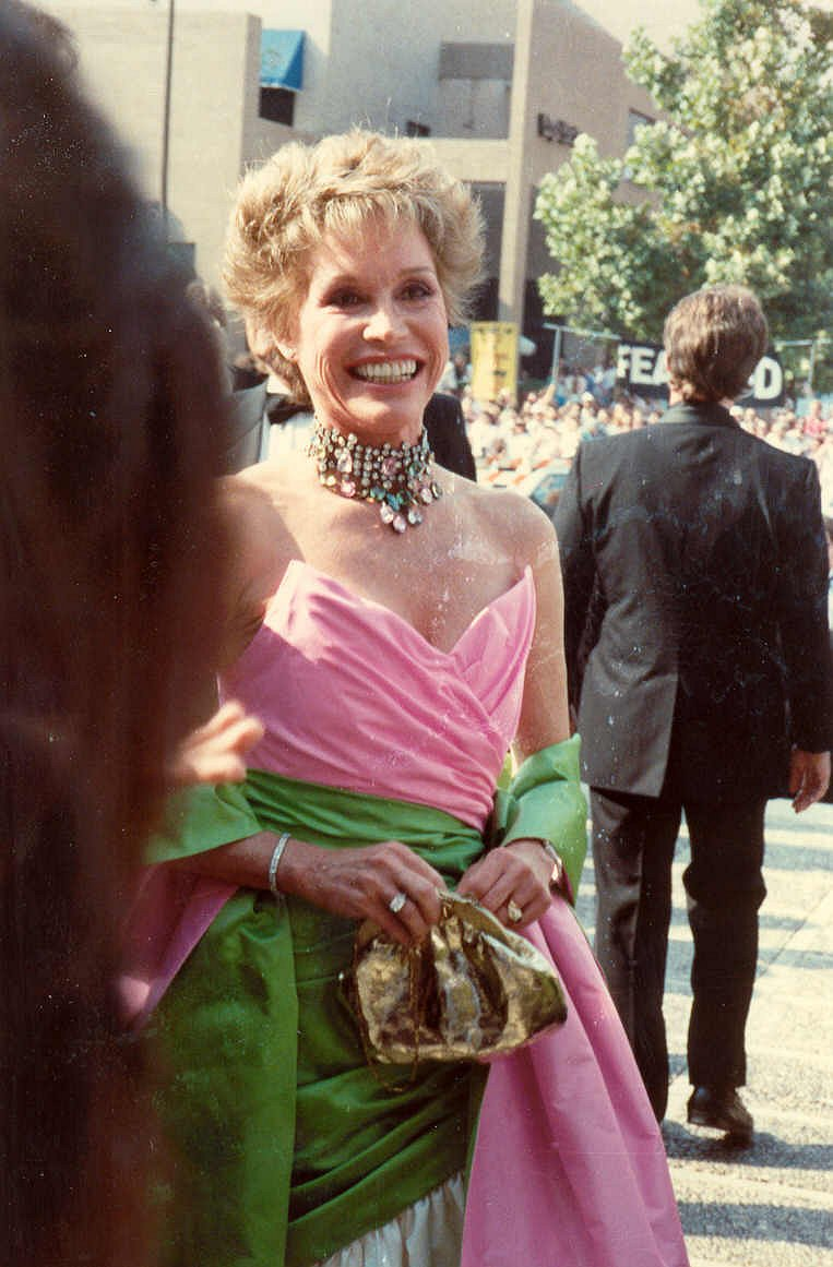 Mary Tyler Moore on the red carpet at the 40th Annual Primetime Emmy Awards, 8/28/88.